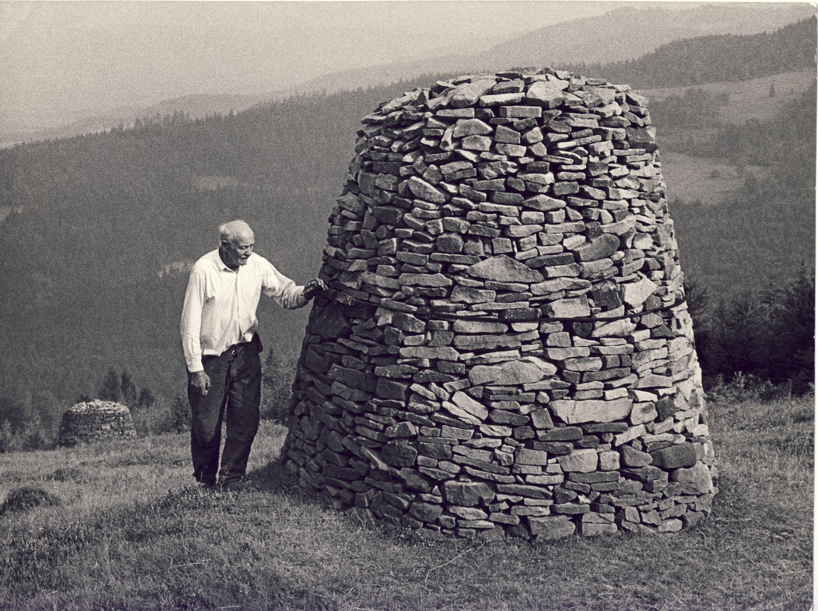 Jan Byrtus, Beskydy Košařiska. 1967